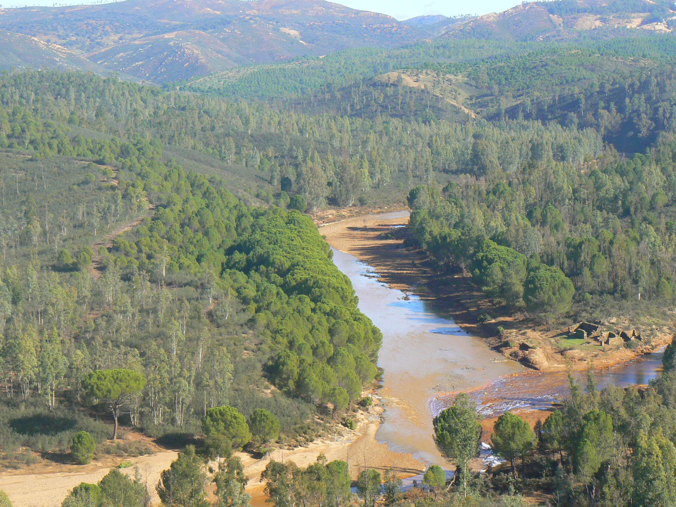 Odiel River picture, it was taken the 20th of November of 2006 by me during a fieldtrip with the master Erasmus Mundus: "Coastal and Water Management".